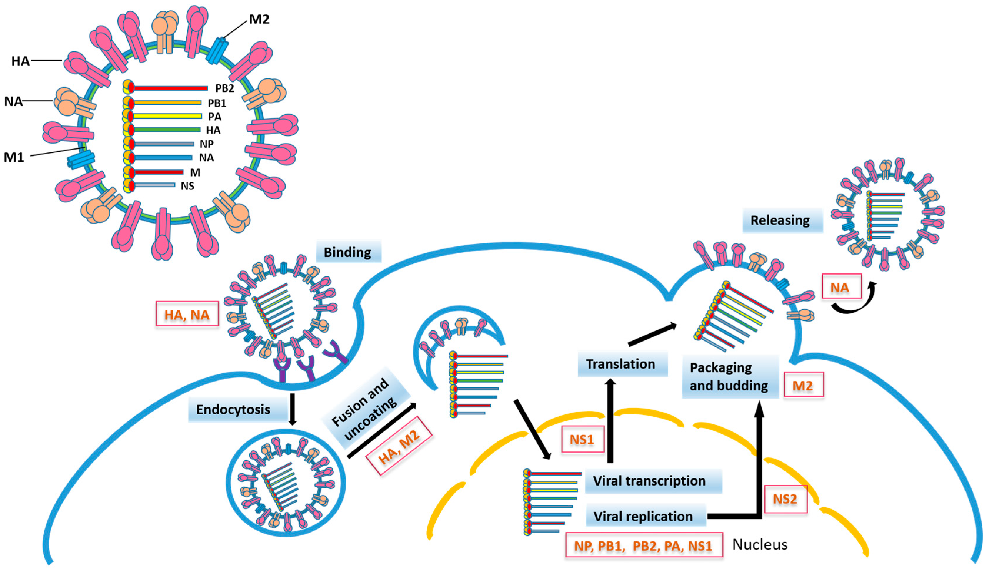 Influenza virus particle and life cycle. Influenza viral proteins participating in different steps of virus infection are indicated. HA, hemagglutinin; NA, neuraminidase; M1, matrix 1 protein; M2, matrix 2 protein; NP, nucleoprotein; PB2, polymerase basic protein 2; PB1, polymerase basic protein 1; PA, polymerase acidic protein; NS1, nonstructural protein 1; NS2, nuclear export protein.